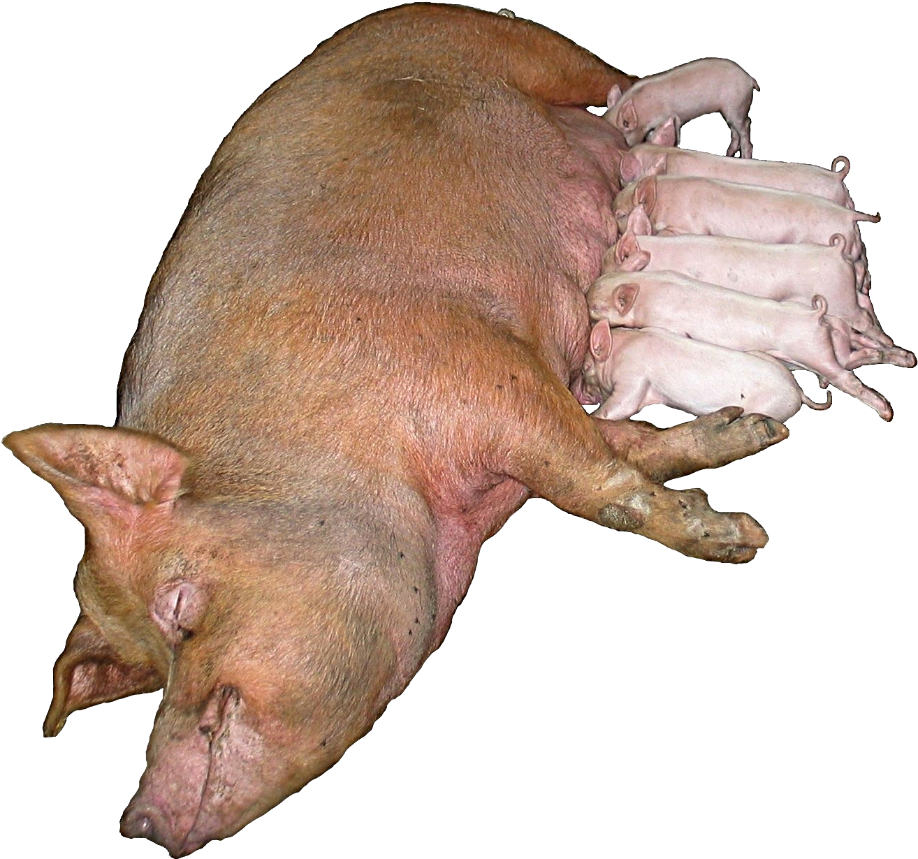 Natural selection favors the sole expression of maternal gene copies, because it allows for the genetic coadaptation of maternal offspring traits and leads to higher offspring fitness.